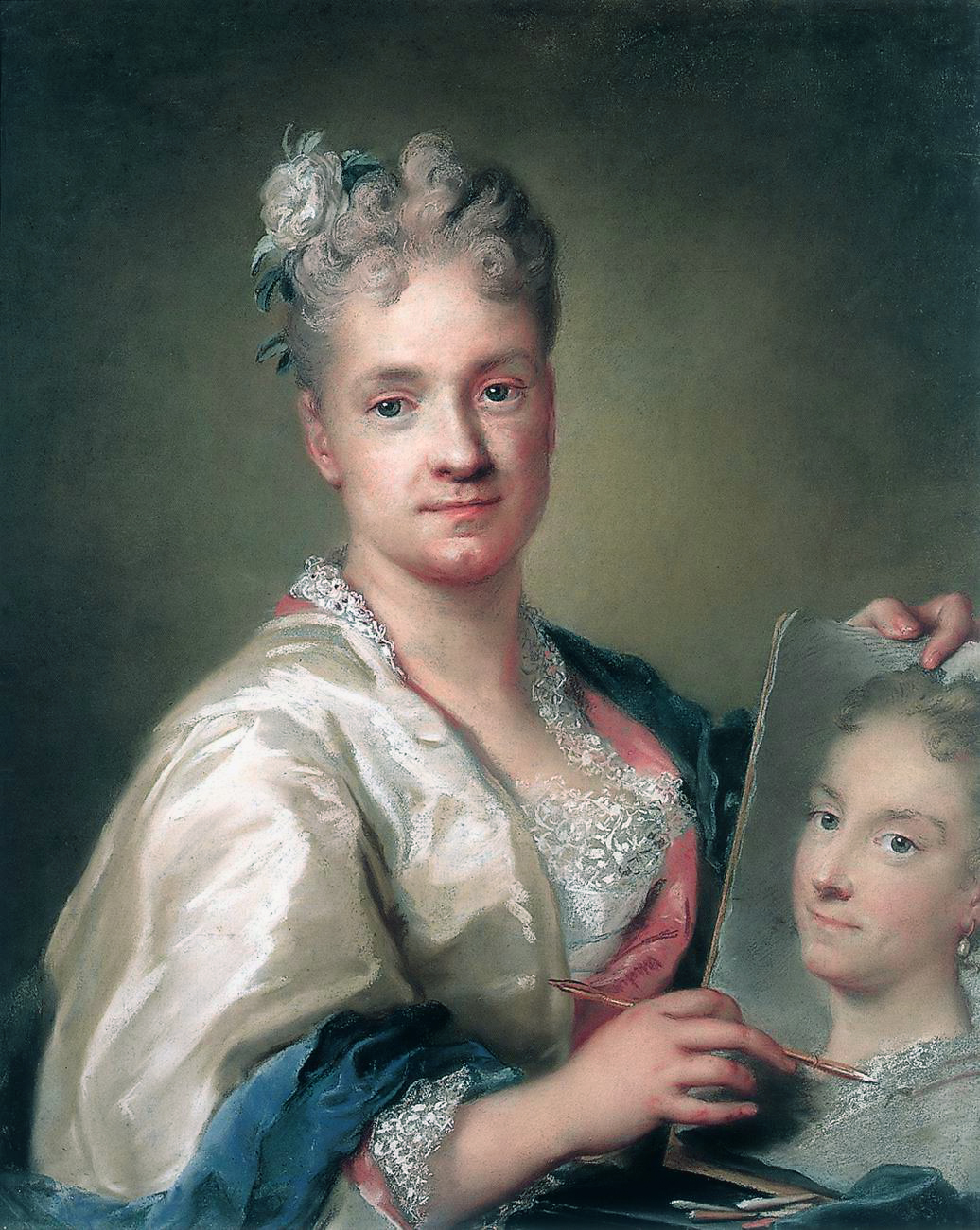 Self-portrait holding a portrait of her sister pastel on paper 71 x 57 cm 1715